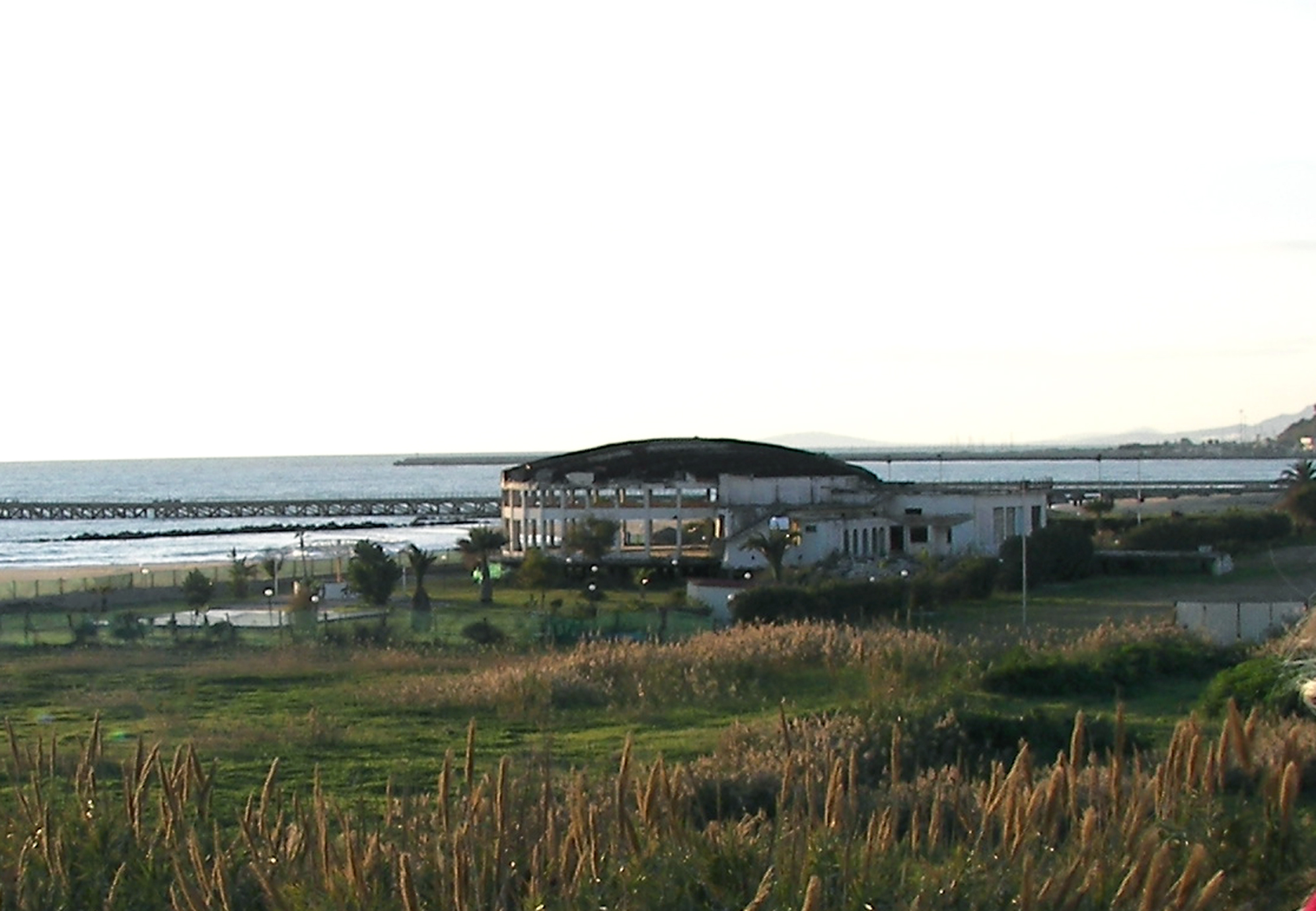 La conchiglia - Disused bathhouse build in 1958 in Gela's beach - Sicily